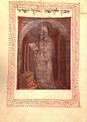 An illuminated page from Abraham Abulafia's Light of the Intellect (1285)